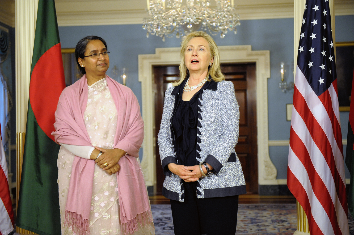 Secretary Clinton with Bangladesh Foreign Minister Dipu Moni မြန်မာဘာသာ: ဘင်္ဂလားဒေ့ရှ်နိုင်ငံဝန်ကြီးချုပ် ဒီပု မိုနီ နှင့် အမေရိကန်နိုင်ငံ အတွင်းရေးမှုး ဟီလာရီကလန်တန်